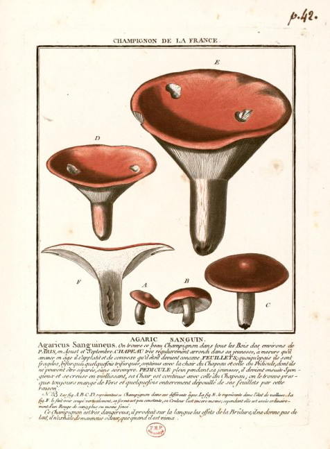 Pierre Bulliard: Herbier de la France; Vol. I. Pl. 42 Agaricus sanguinea